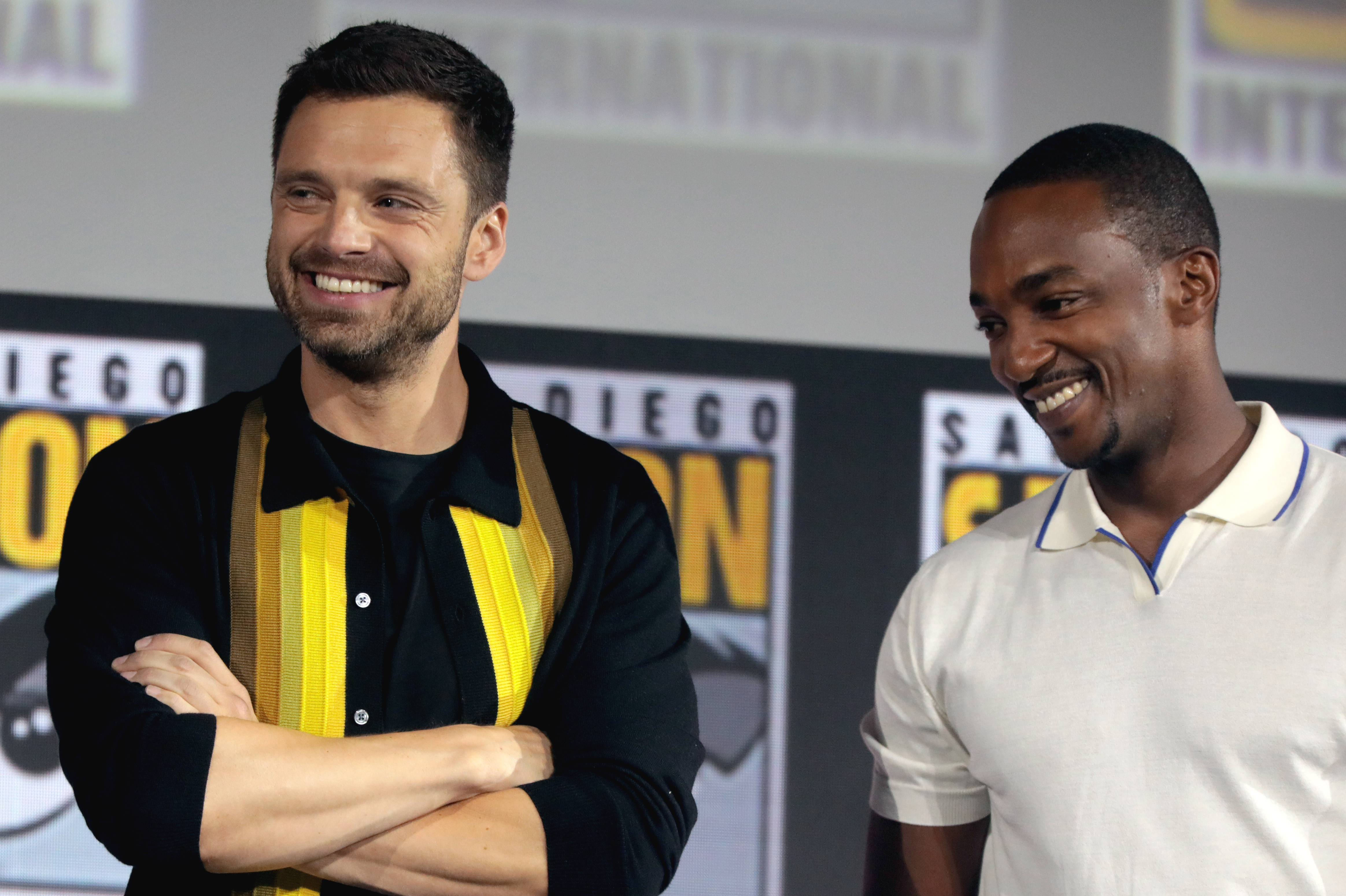 Sebastian Stan and Anthony Mackie speaking at the 2019 San Diego Comic Con International, for "The Falcon and the Winter Soldier", at the San Diego Convention Center in San Diego, California.